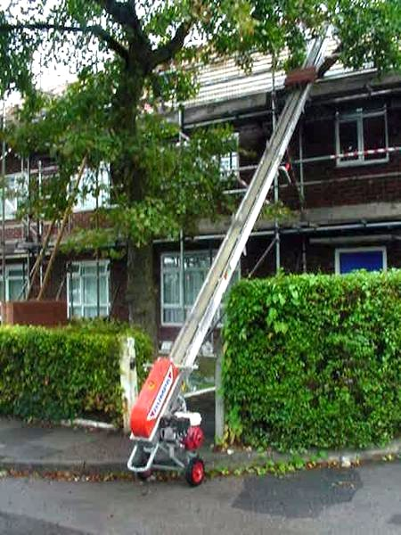 I took this photograph.